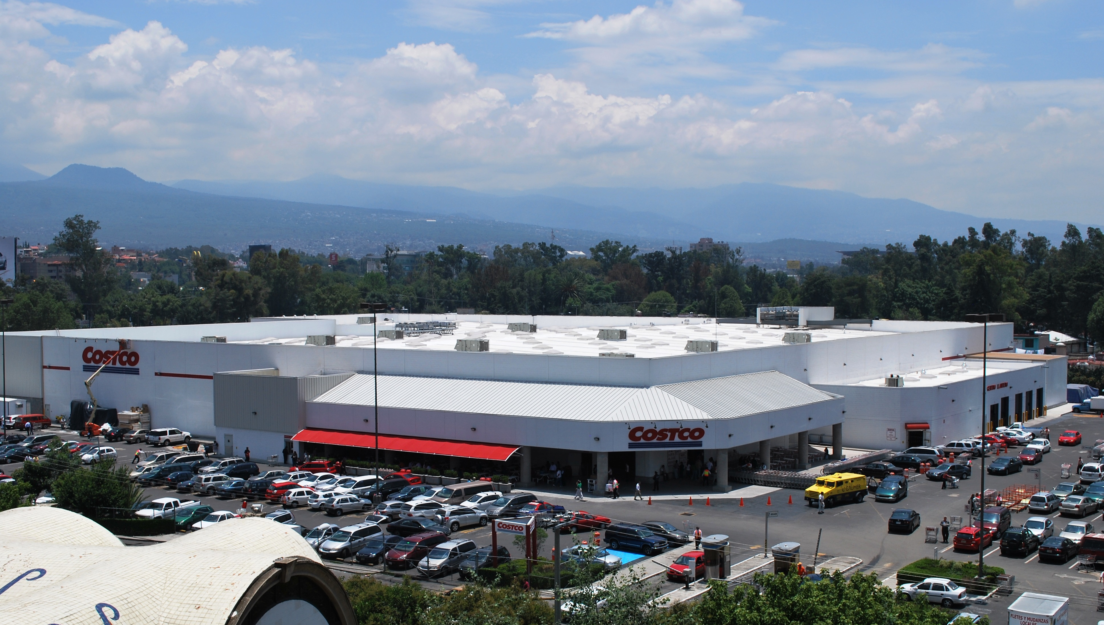 Costco store located in the Tlalpan borough by Calzada Xochimilco-Mexico Col Ejidos de Huipulco in Mexico City